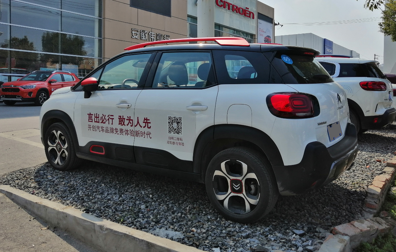 Citroën C4 Aircross CN photographed in Hefei, Anhui province, China.